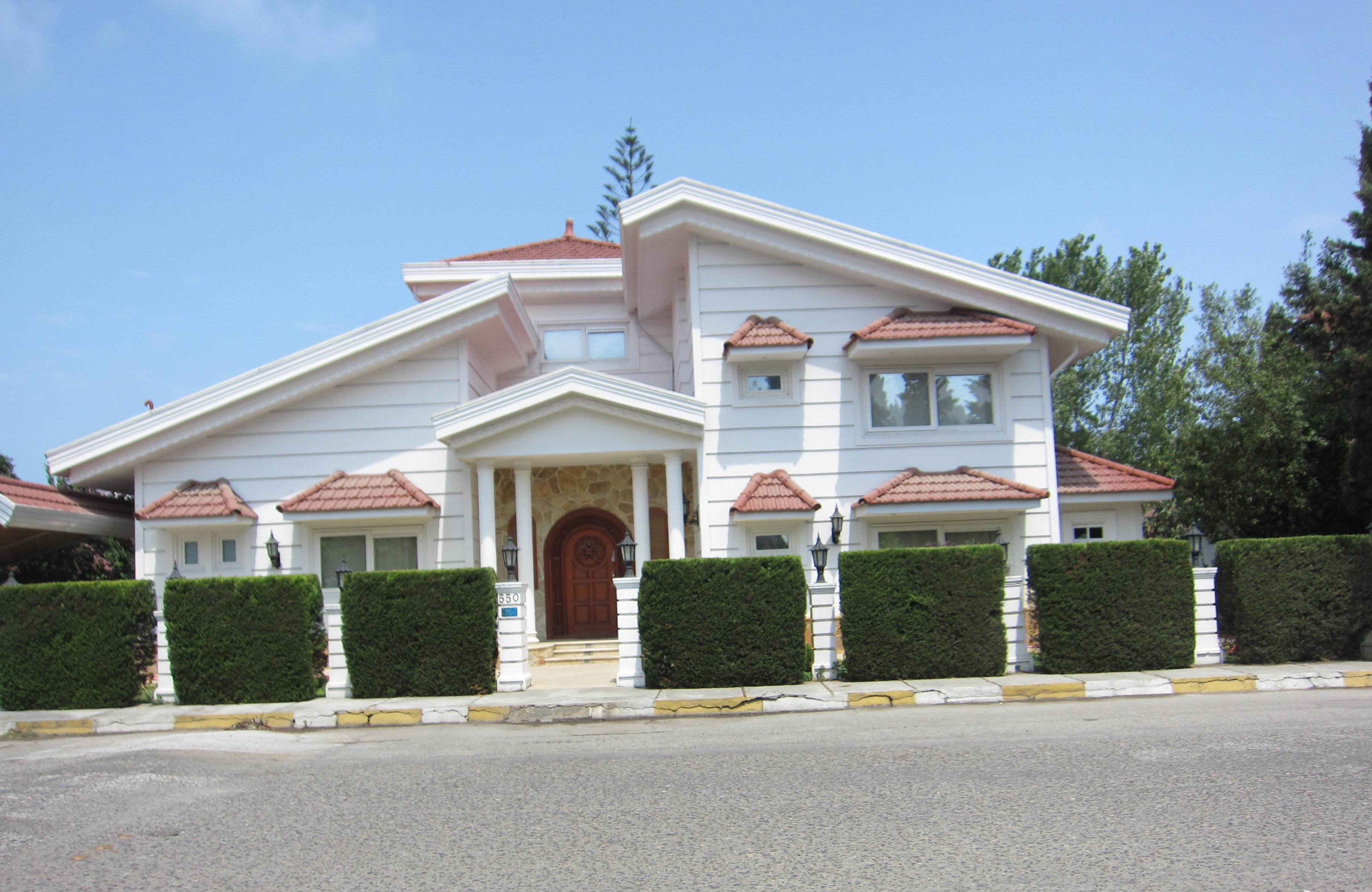 A villa in northern Khezershahr